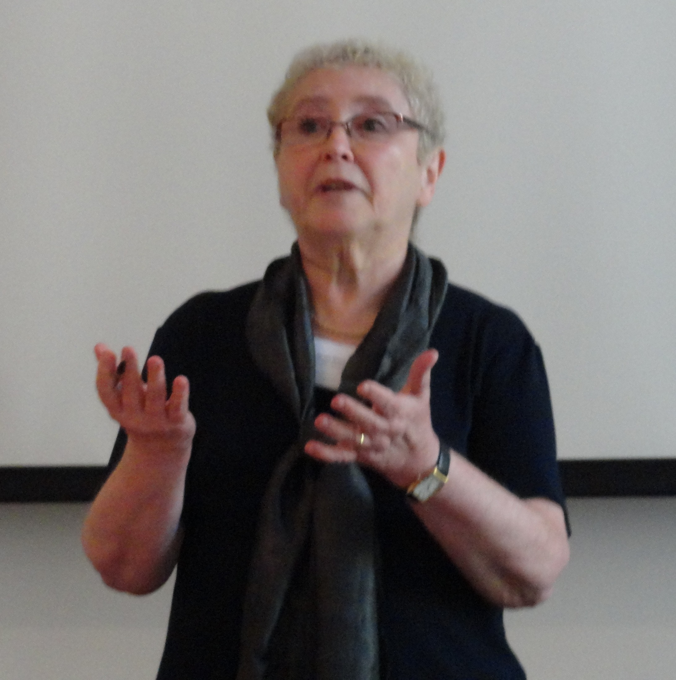 This photo was taken by me on 21st July 2012 at Oxford